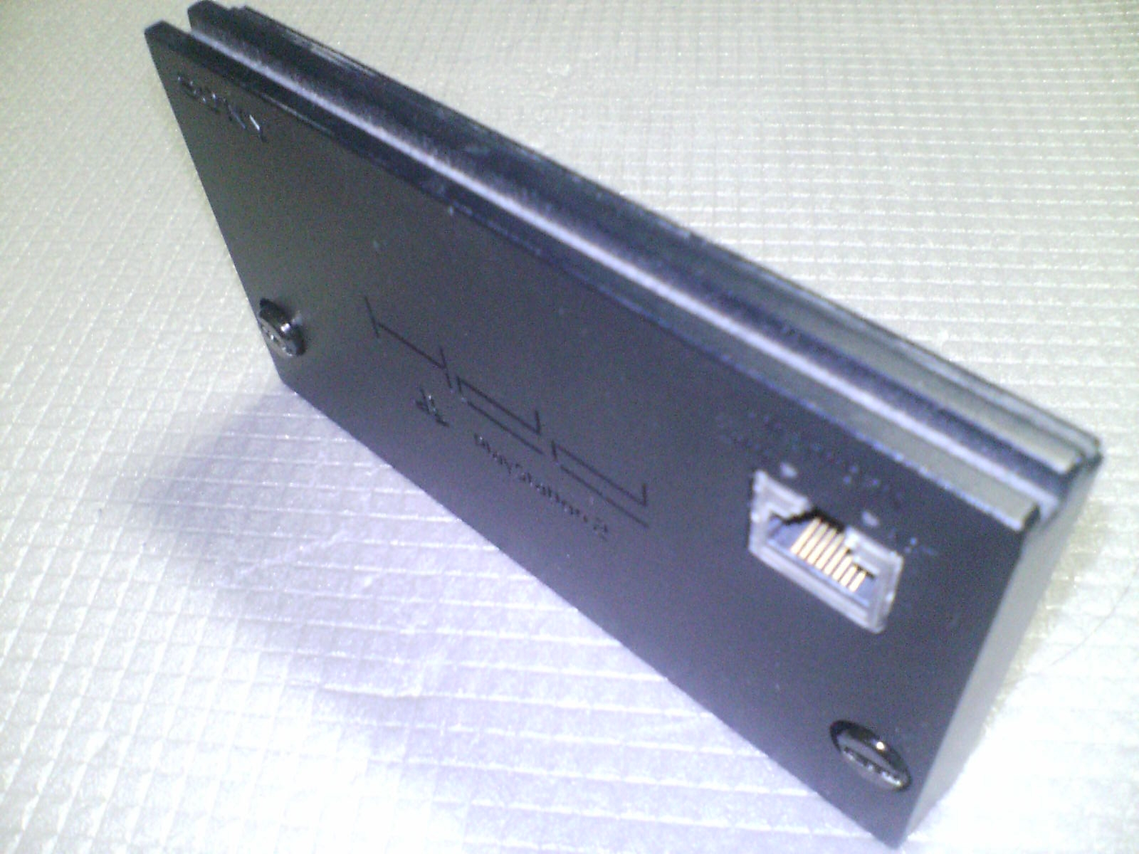 Network Adapter for PlayStation 2